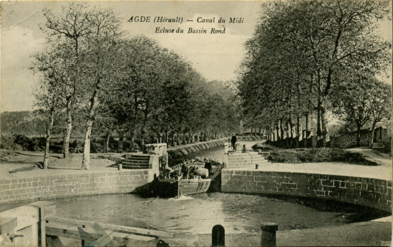 A picture postcard showing an early photo of the round lock at Agde